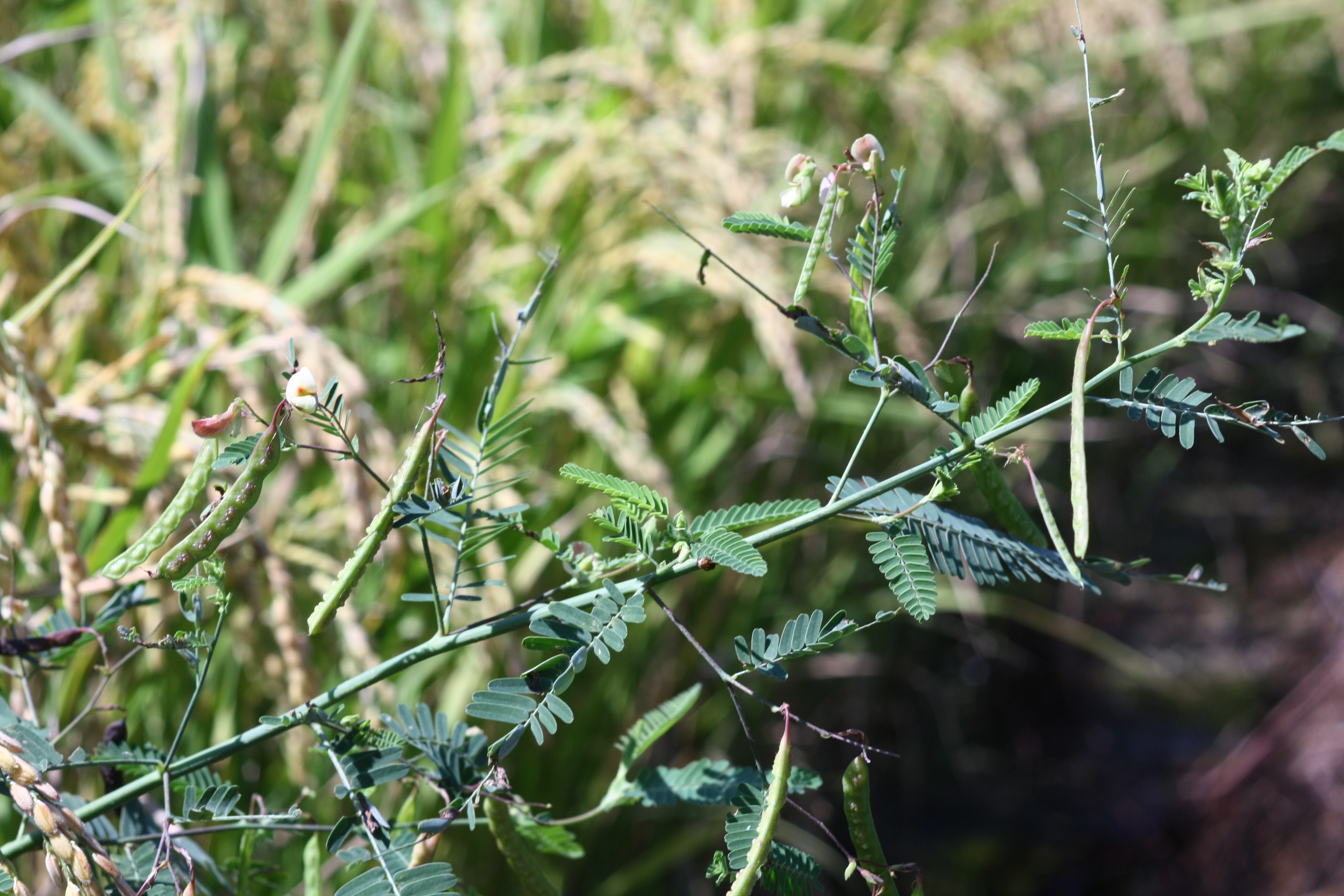 Aeschynomene indica in Gwangju, Korea